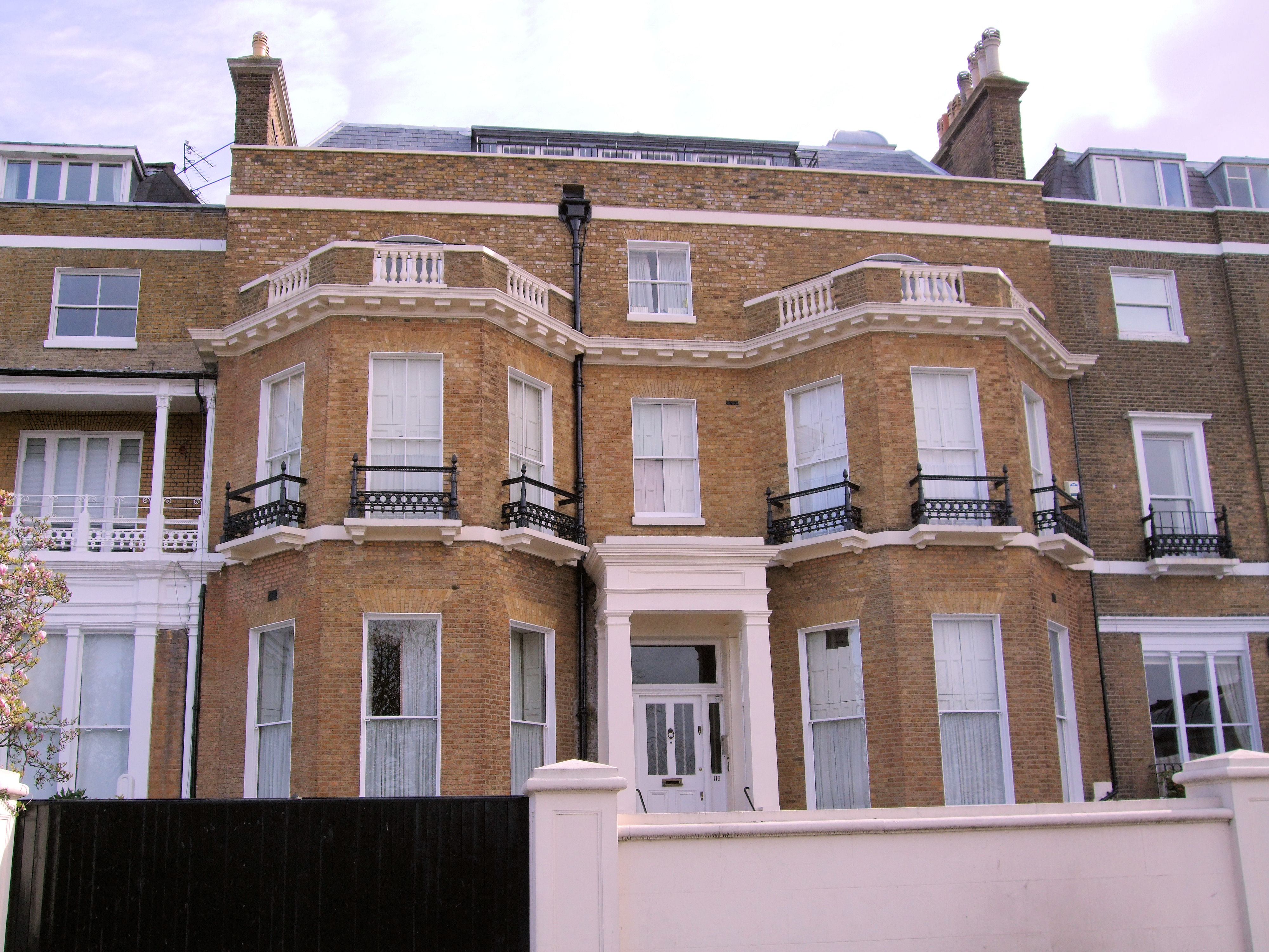 Mick Jagger's former house in Richmond Hill. London.